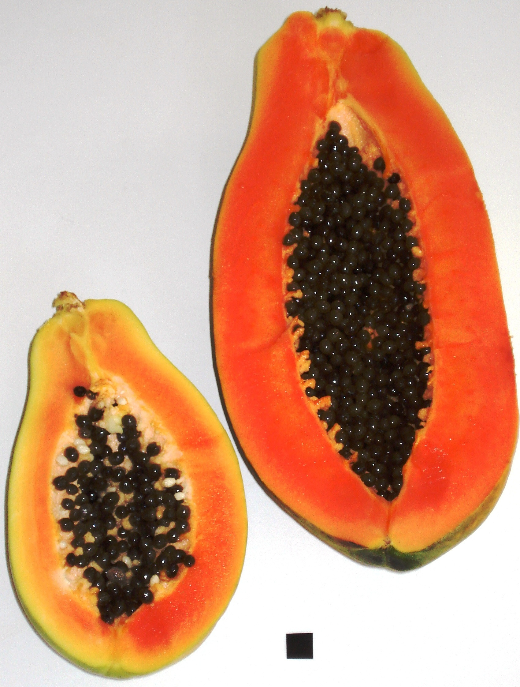 Papaya - two half fruits of different size